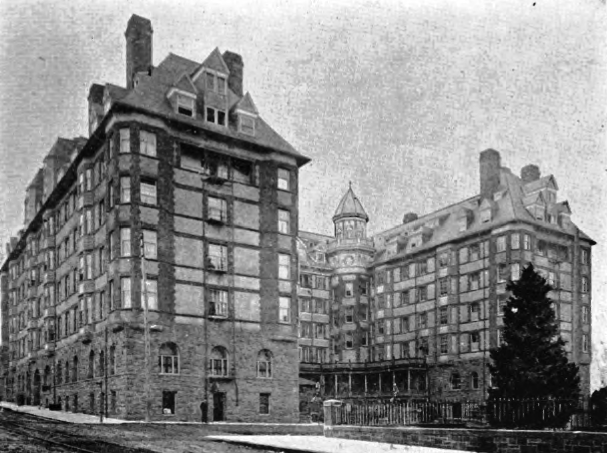 Hotel Portland, since demolished